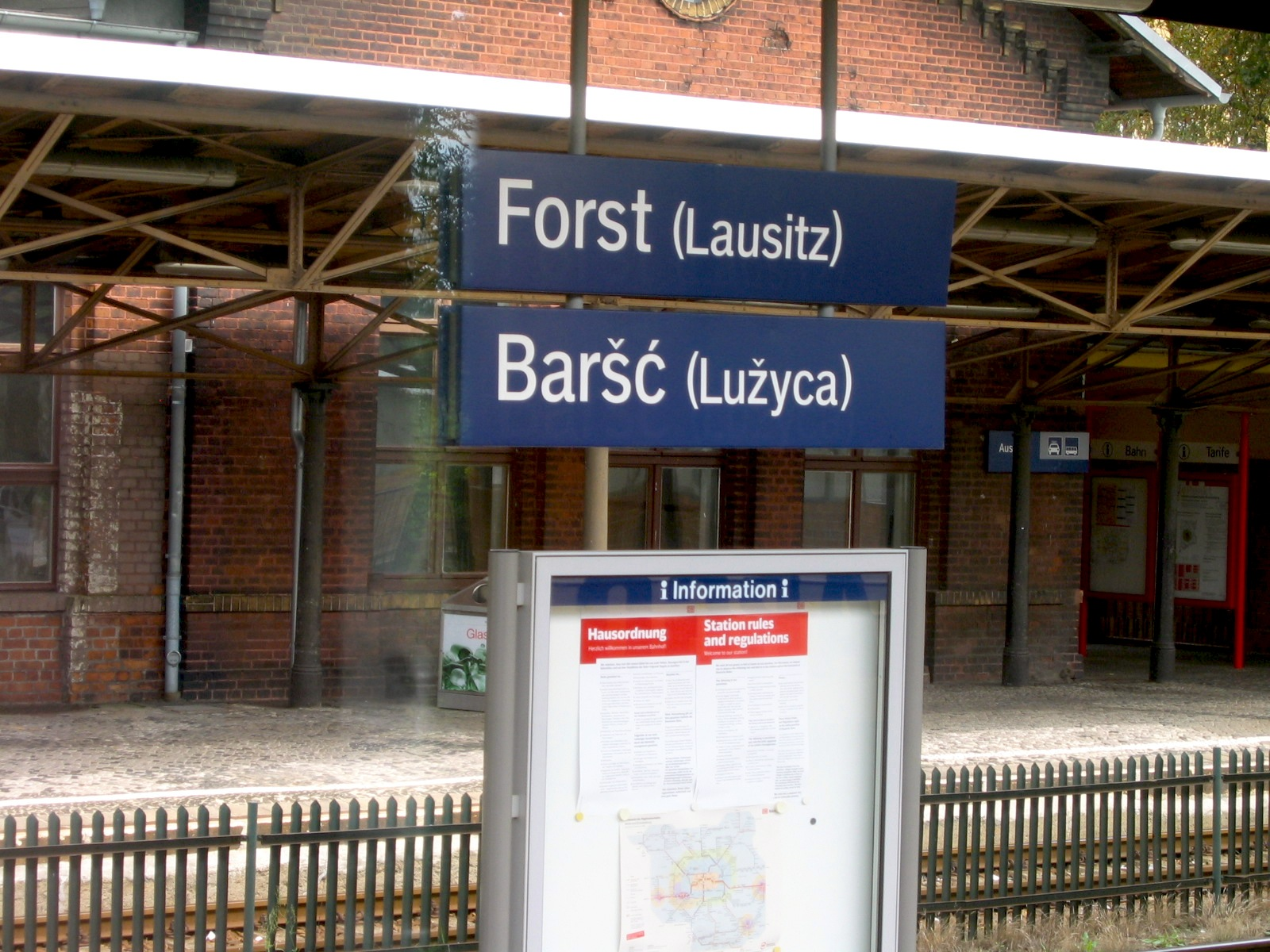 Train station at Baršć in Lusatia on the Polish border